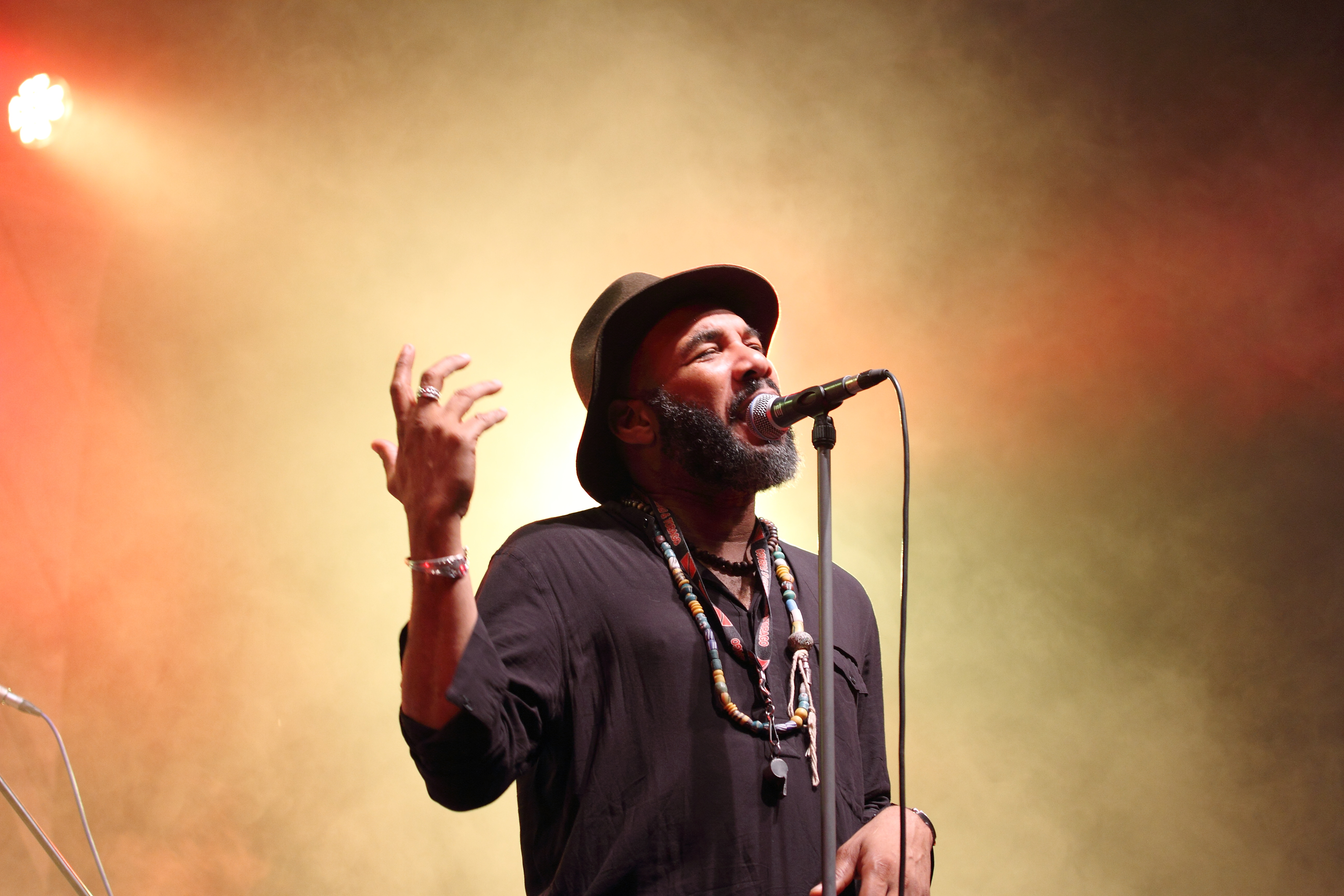 The poet and singer Anthony Joseph and his band at Rudolstadt-Festival 2017.